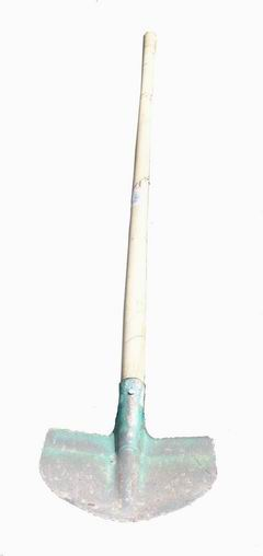 Shovel